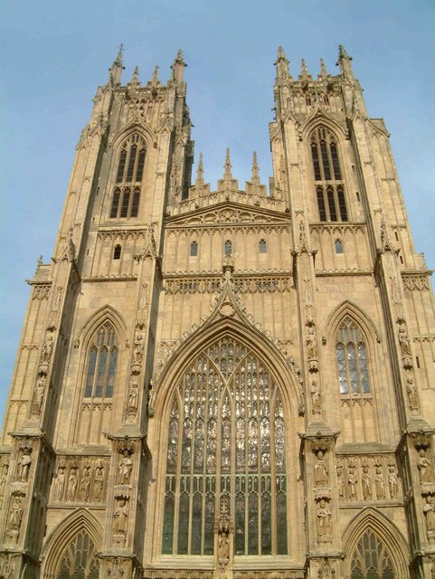 West Towers of Beverley Minster, Beverley, East Riding of Yorkshire. England.